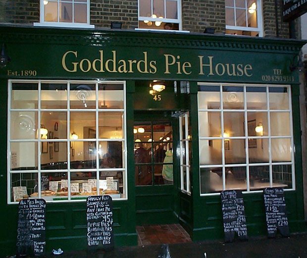 Goddard's Pie House in Greenwich, London. A traditional pie mash and liquor shop established in 1890